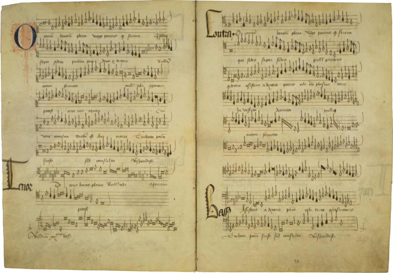 Manuscript with the Omnium bonorum plena, a motet by Loyset Compère, possibly his earliest, stored work, the date is uncertain, perhaps it is composed on the occasion of the consecration of the Cathedral of Cambrai on July 2, 1472